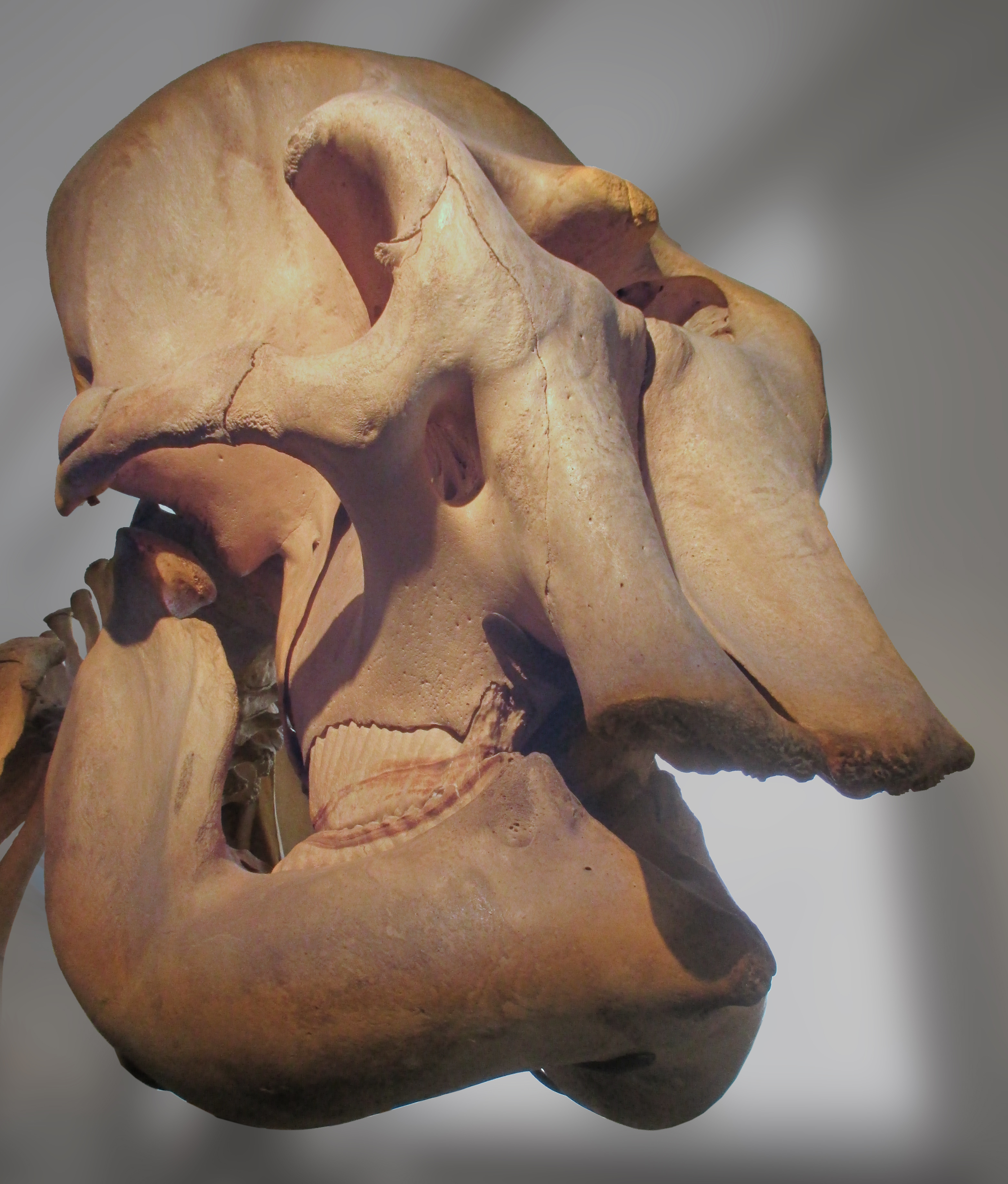 Skull of Elephas maximus indicus at Göteborgs Naturhistoriska Museum, Göteborg, Västra Götaland County, Sweden. The specimen is from Cochinchina, South Vietnam.The sign near the skeleton reads:"Indian elephantElephas indicus L.Foakejth, Kochinkina, South Vietnam, Asia.Gift from Douglas Dickson.1913. 15-2636. Coll. an. 3199."